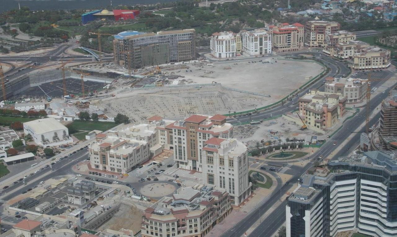 This is a photo showing Dubai Healthcare City in Dubai, United Arab Emirates as seen from the air on 1 May 2007. Children's City, the multicolored building in the top left of the image, can also be seen.